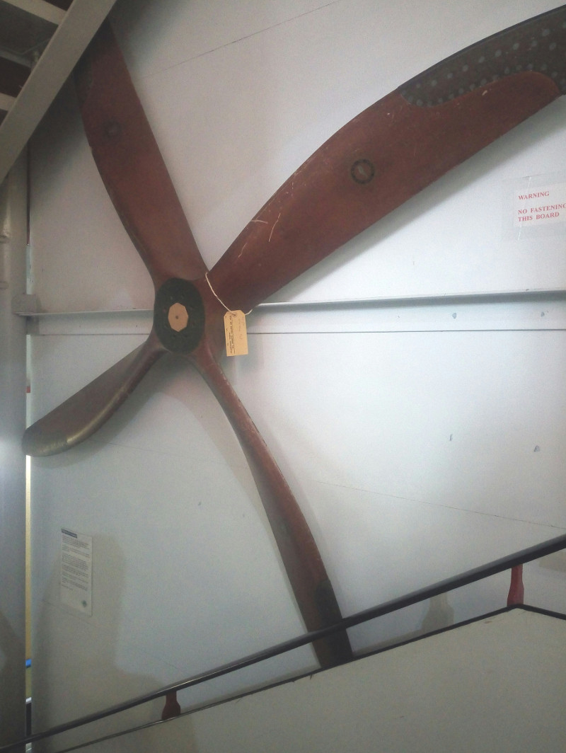 One of the propellers of the 1917, Supermarine P.B.31E Nighthawk aircraft. On display at the Solent Sky museum, Southampton, England